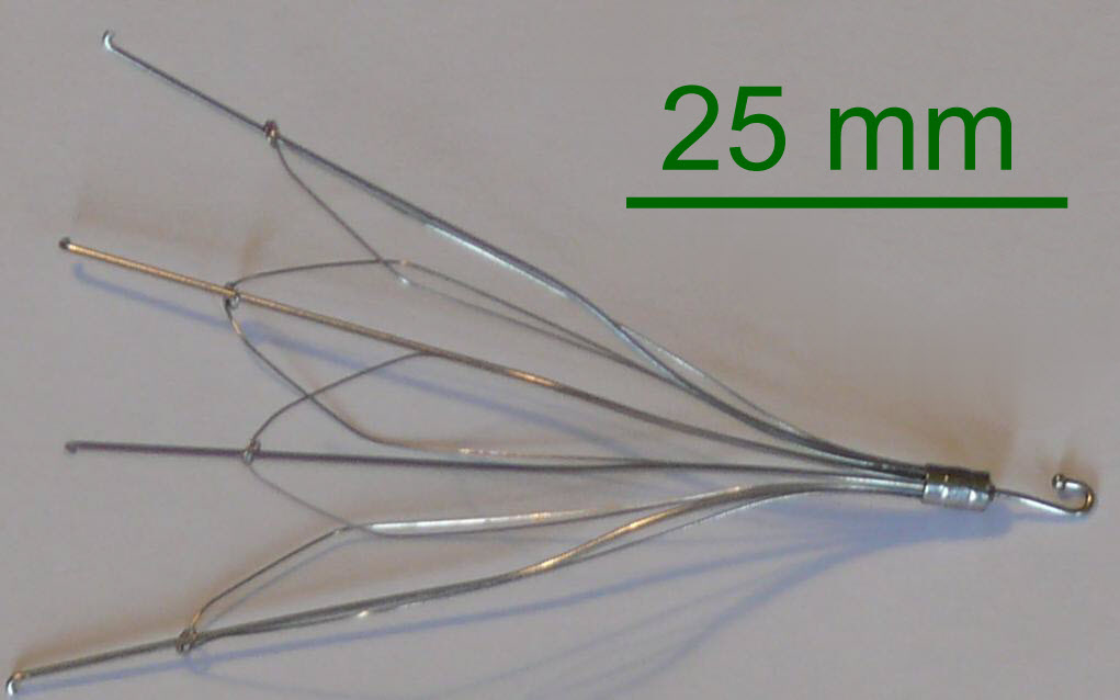 Taken by user:BozMo URL at Picture of used inferior vena cava filter, showing the hook at top for removal via Jugular Vein, the umbrella structure and the leg spikes to fix in place.